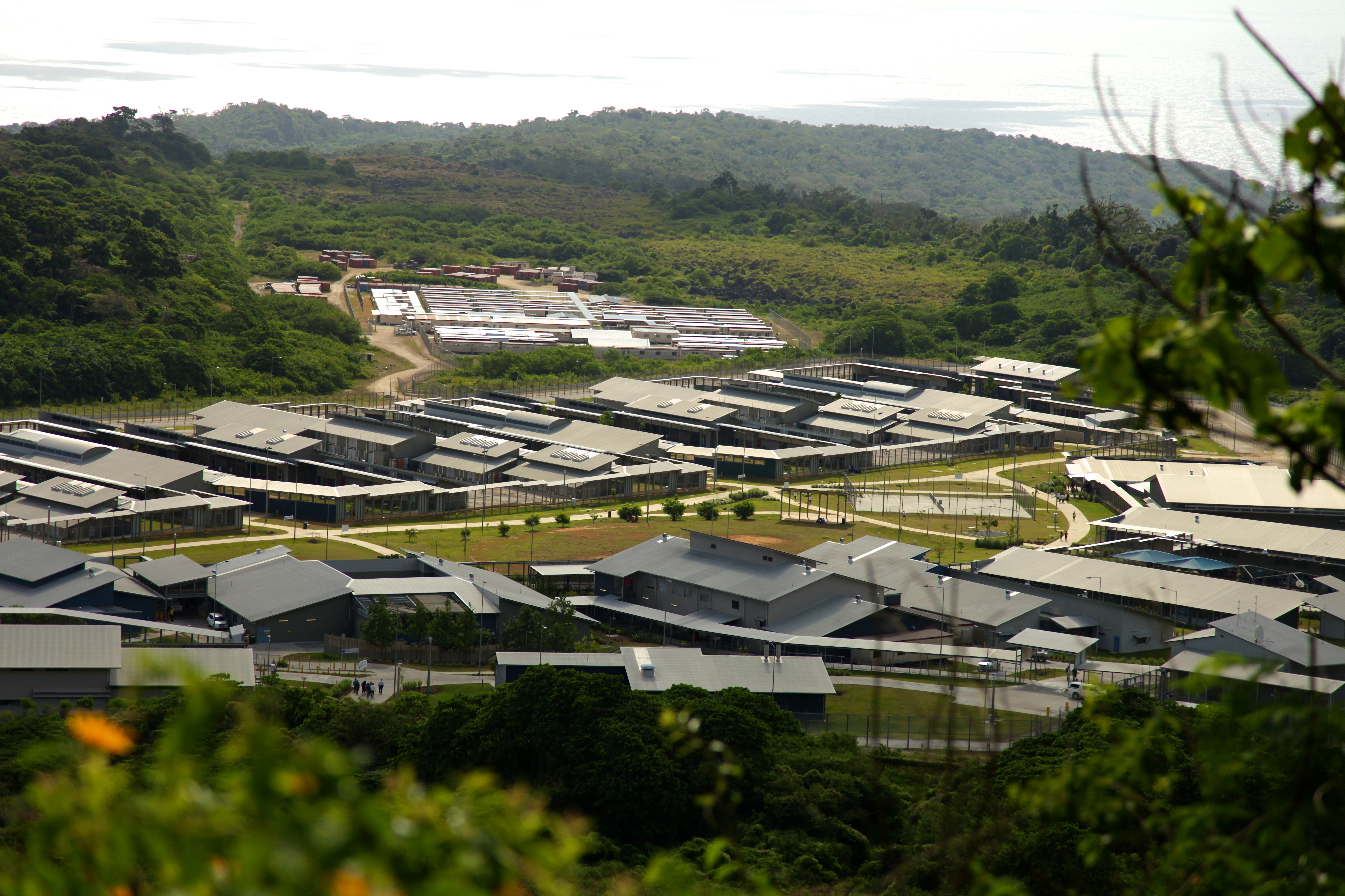 Christmas Island Immigration Detention Centre.